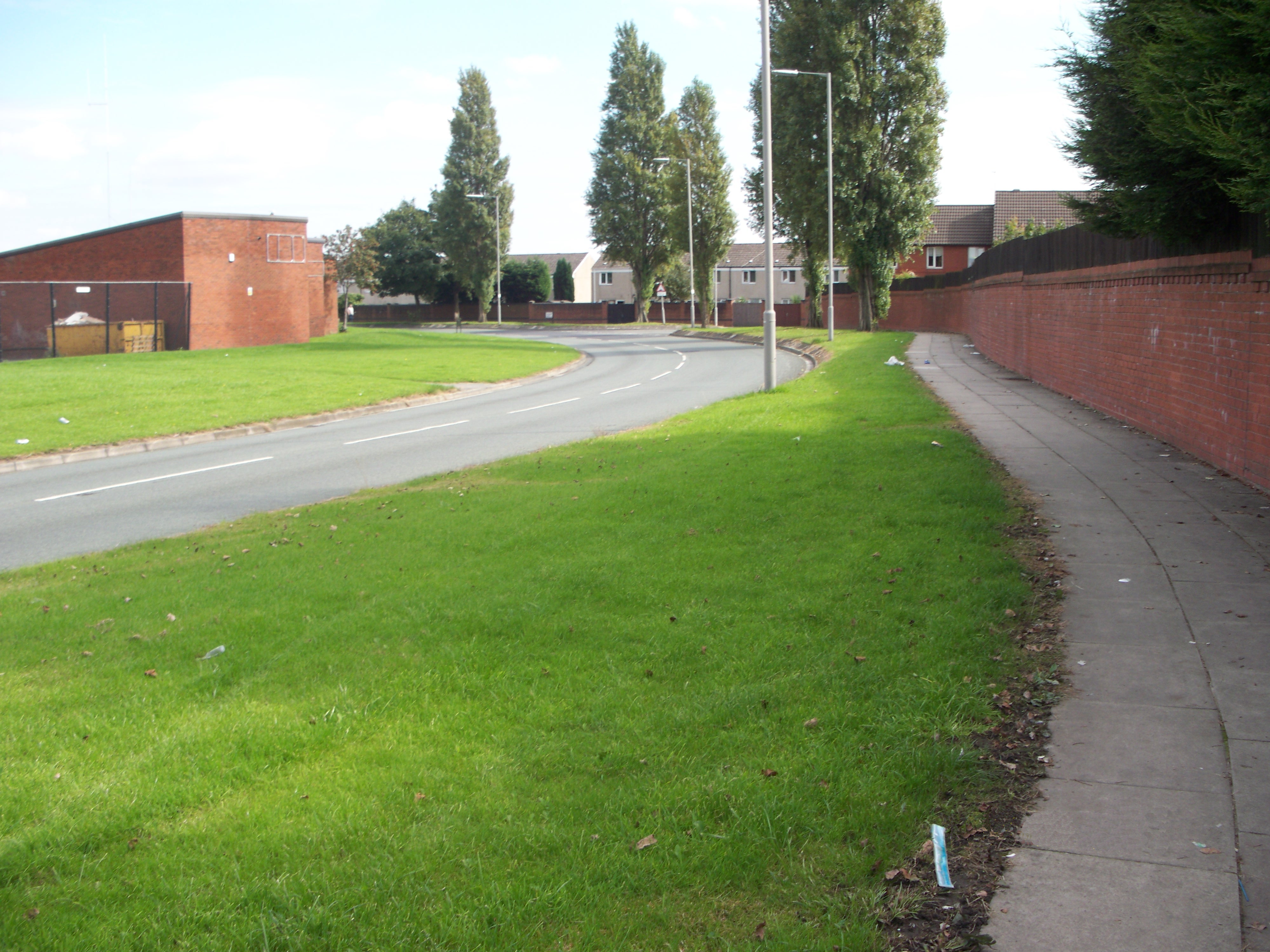 Caldway Drive, Netherley, Liverpool, United Kingdom.